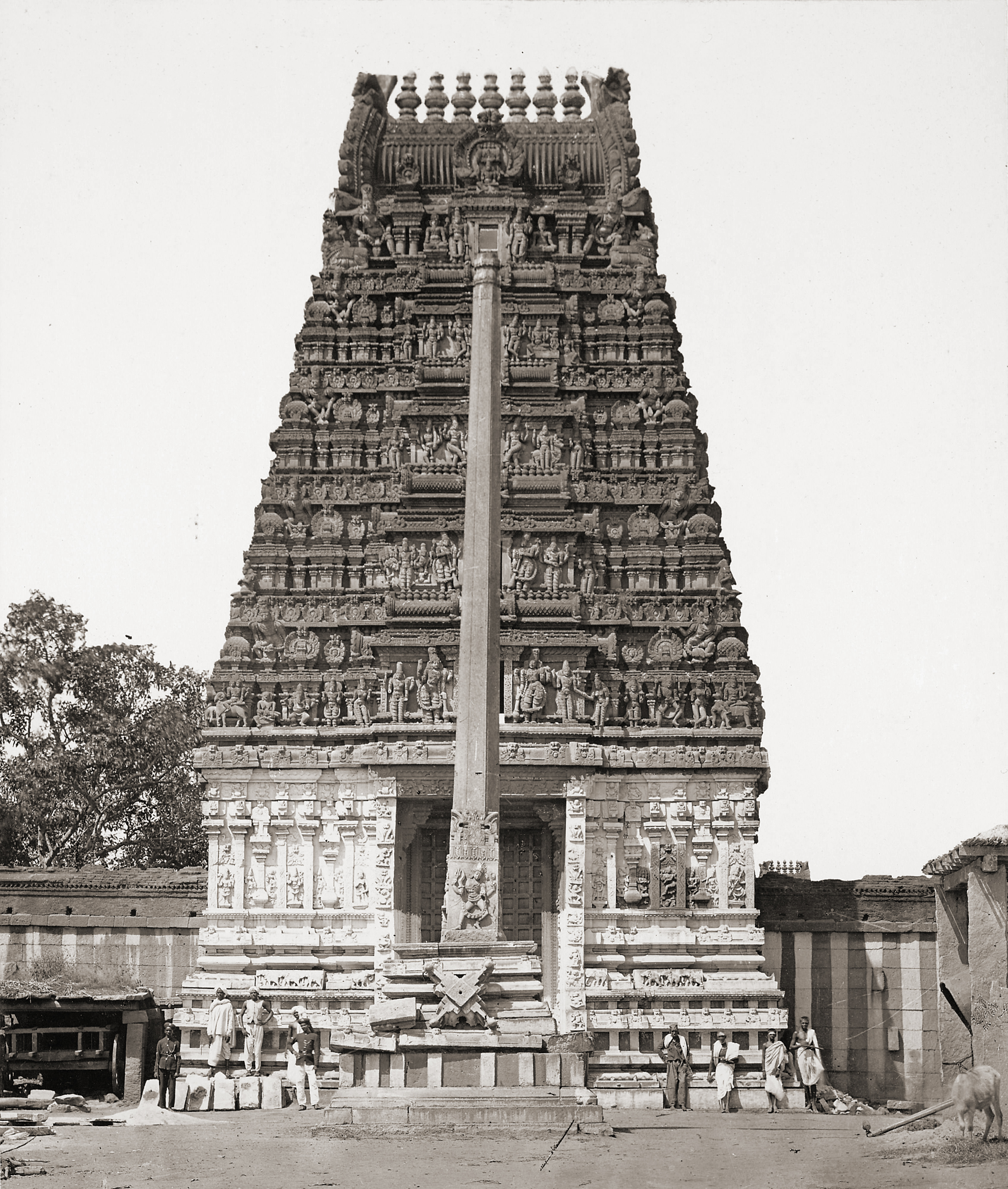 This photograph of the Someshwara Temple, Ulsoor, Bangalore taken in the 1890s by an unknown photographer, is from the Curzon Collection's 'Souvenir of Mysore Album'